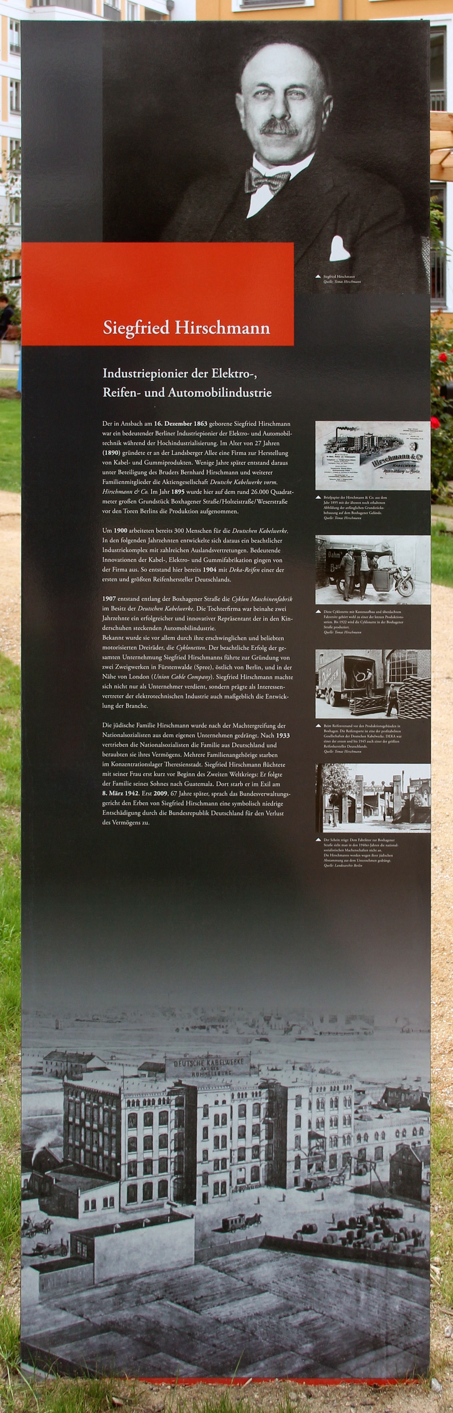 Memorial plaque, Siegfried Hirschmann, Siegfried-Hirschmann-Park, Berlin-Friedrichshain, Deutschland